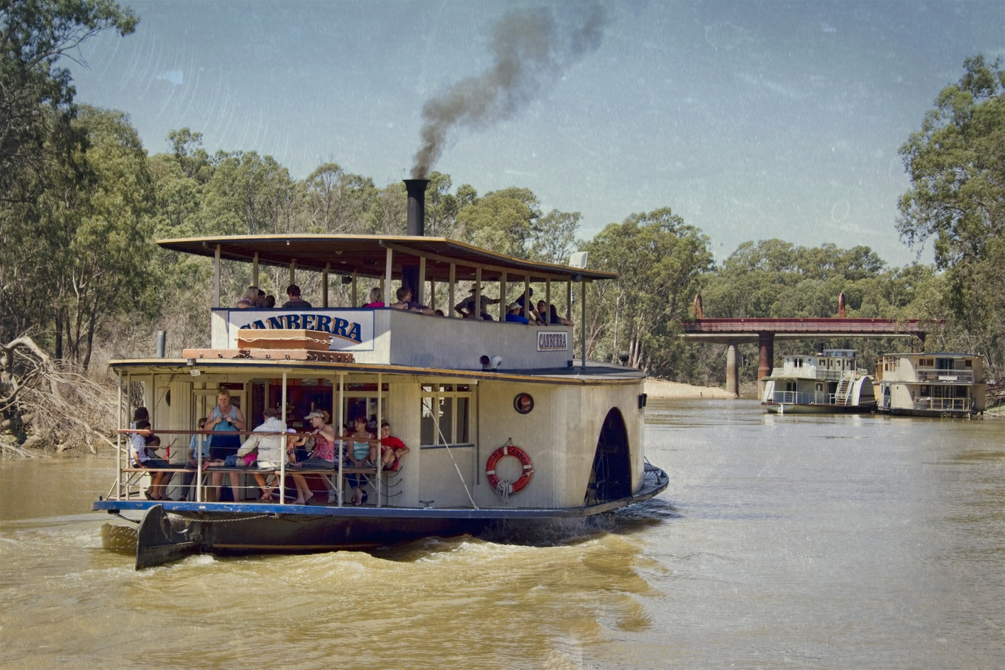 Taken while on holidays at Echuca, they now have restored several of the old steam boats and have several running